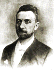 Photo of Pryce Pryce-Jones (1835-1920), Welsh business man who invented the mail order catalogue